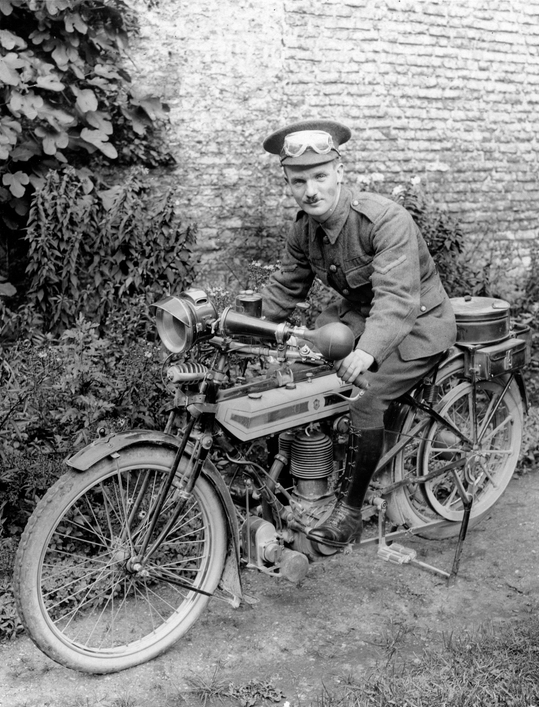 A dispatch rider on a Triumph motorcycle in France